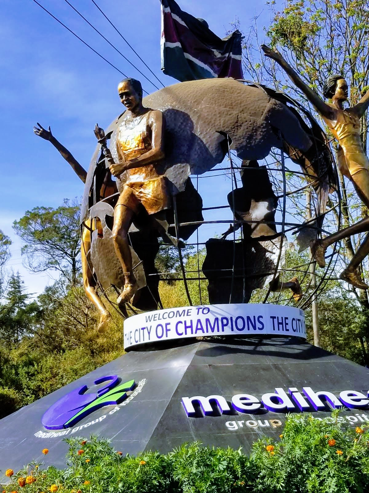 Champions Monument located in Eldoret, erected in honor of retired, elite and upcoming athletes in Kenya.